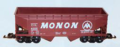 A picture of a completed model of a 2-Bay Offset Hopper in 1:32 Scale by Mainline America. 10 unique road numbers were produced between 2007 and 2011.